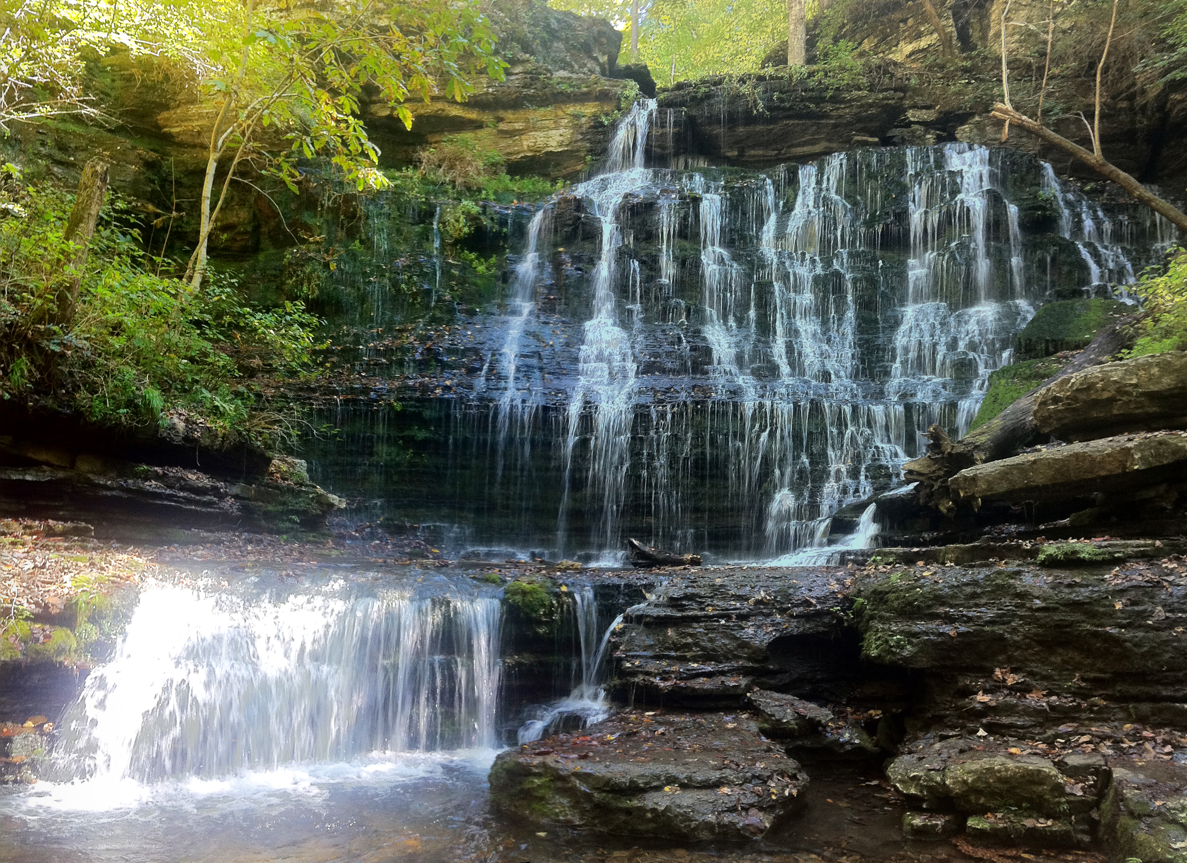 This is a picture of Machine Falls in SHORT SPRINGS CLASS I SCENIC-RECREATION STATE NATURAL AREA seen from the bottom of the falls.